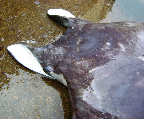 Mobula eregoodootenkee in Karachi, Pakistan